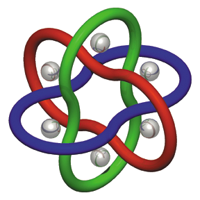 A cartoon of a molecular borromean ring, complete with the six zinc cations.